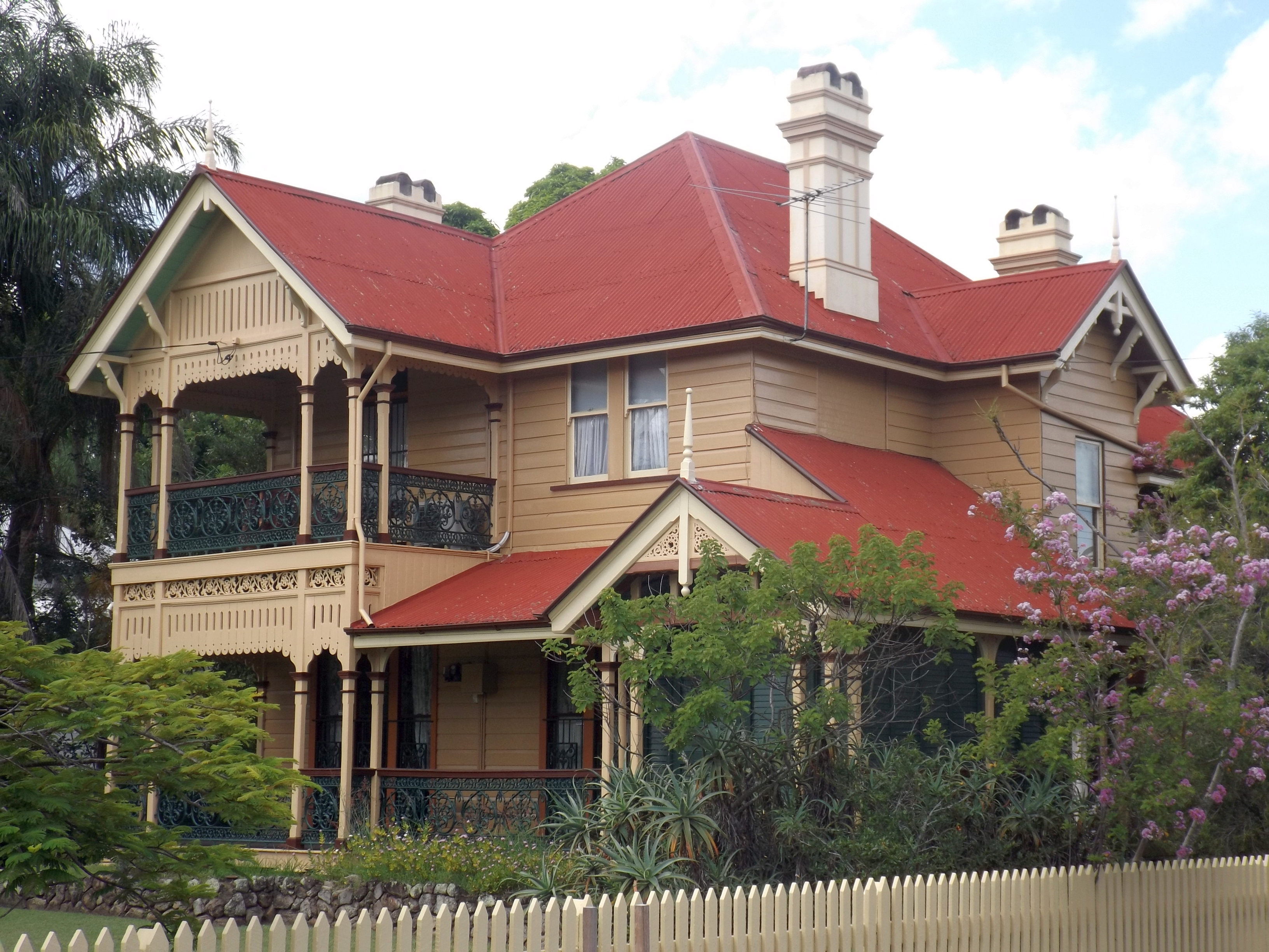 Photo of residence known as Nassagaweya seen from Morry Street at West End, Brisbane, Queensland, Australia.